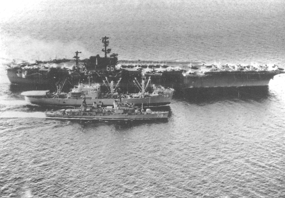 The U.S. Navy stores ship USS Vega (AF-59) with the aircraft carrier USS America (CVA-66) and the destroyer USS Epperson (DD-719) alongside during an underway replenishment at sea. The photo was taken during one of America's deployements to Vietnam between 1968 and 1973.